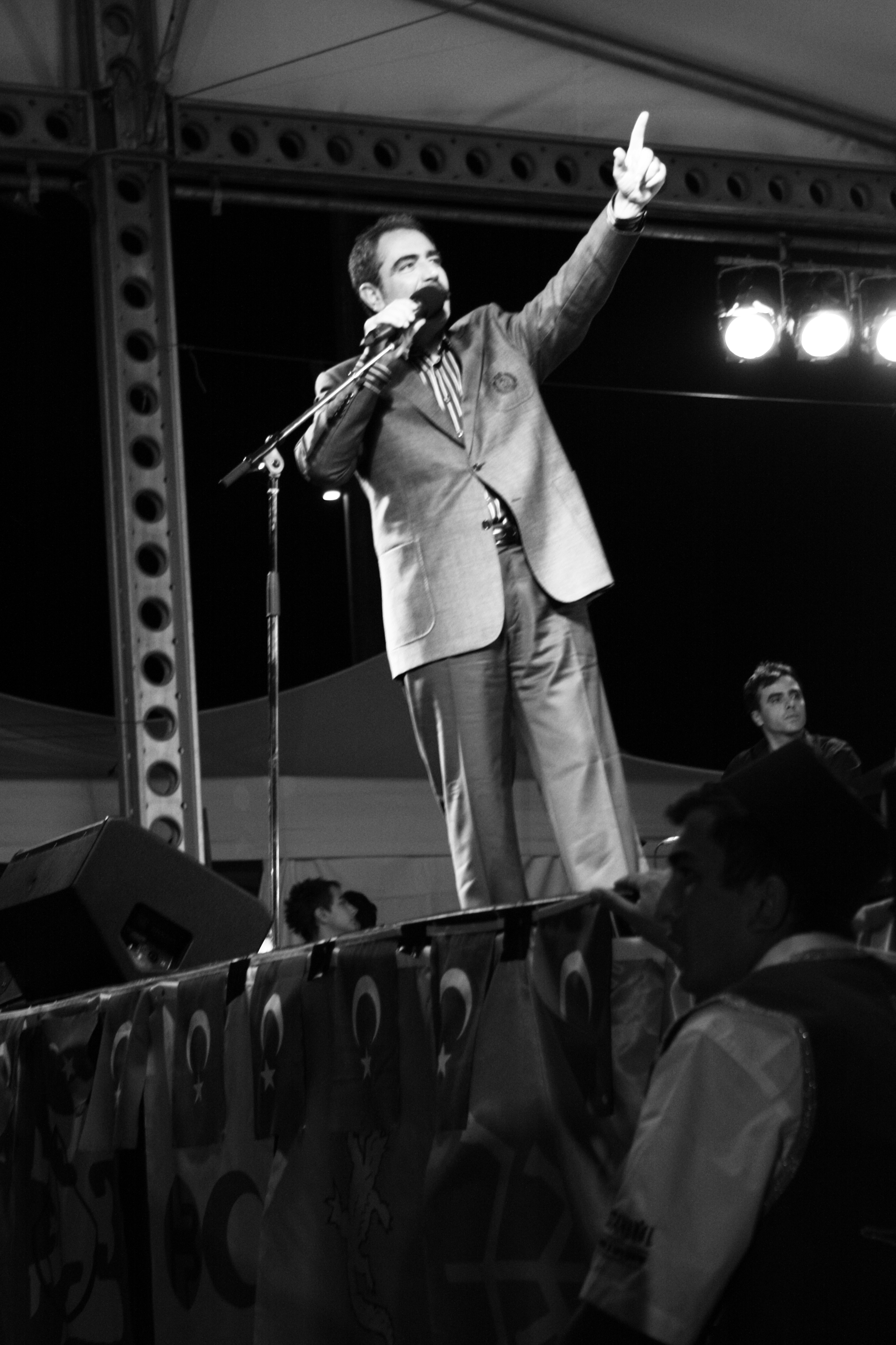 Fatih Kisaparmak at his Australia concert March 2010